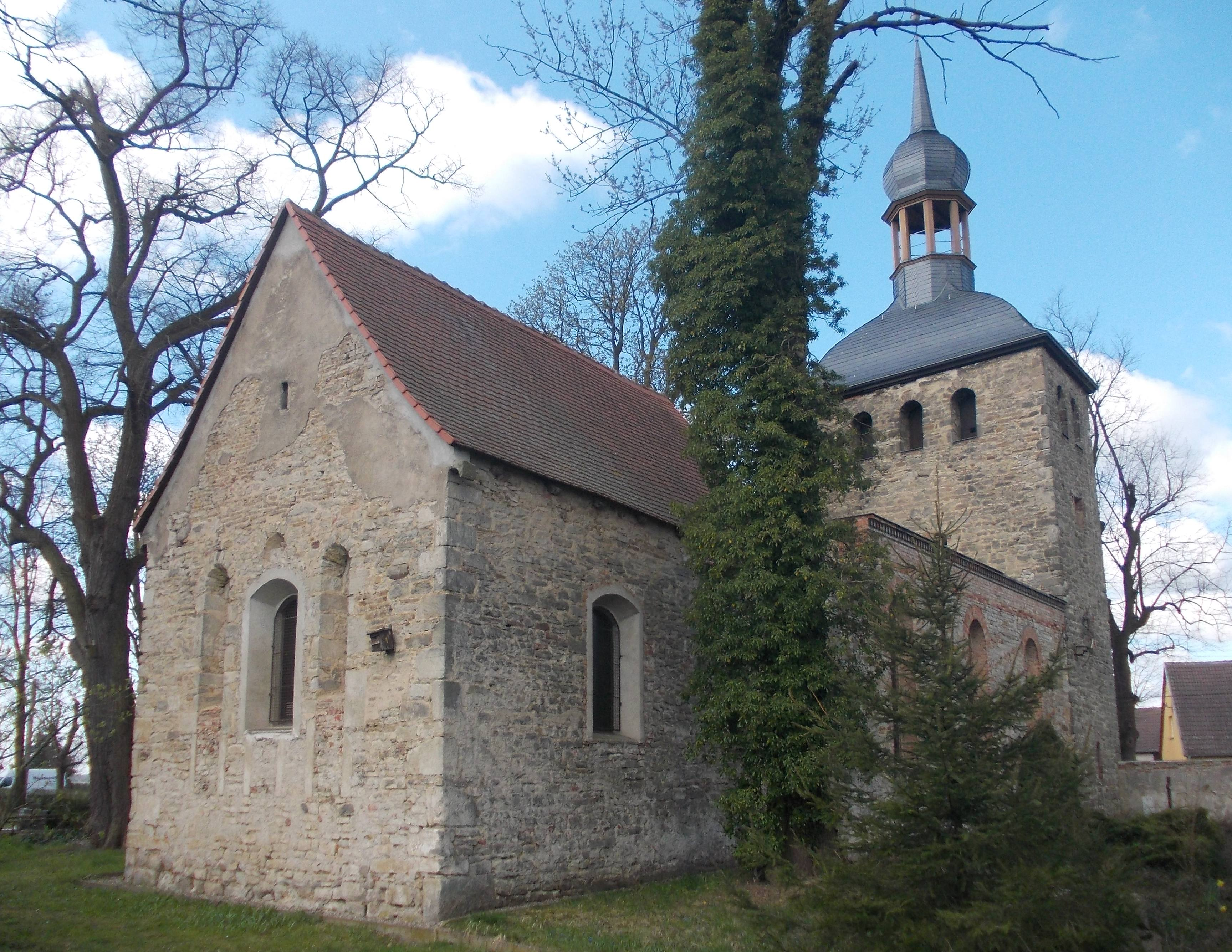 Pissdorf church (Osternienburger Land, Anhalt-Bitterfeld district, Saxony-Anhalt)